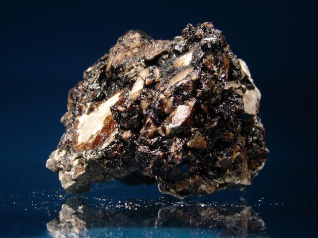 Hand sample including natural asphalt, from Slovakia. The original uploader unfortunately did not give any specific information on the origin of the sample. Presumably it comes from the most popular natural asphalt quarry of Slovakia at Nezbudská Lúčka. If so, the lighter rock present in the sample is a dolomitic limestone.